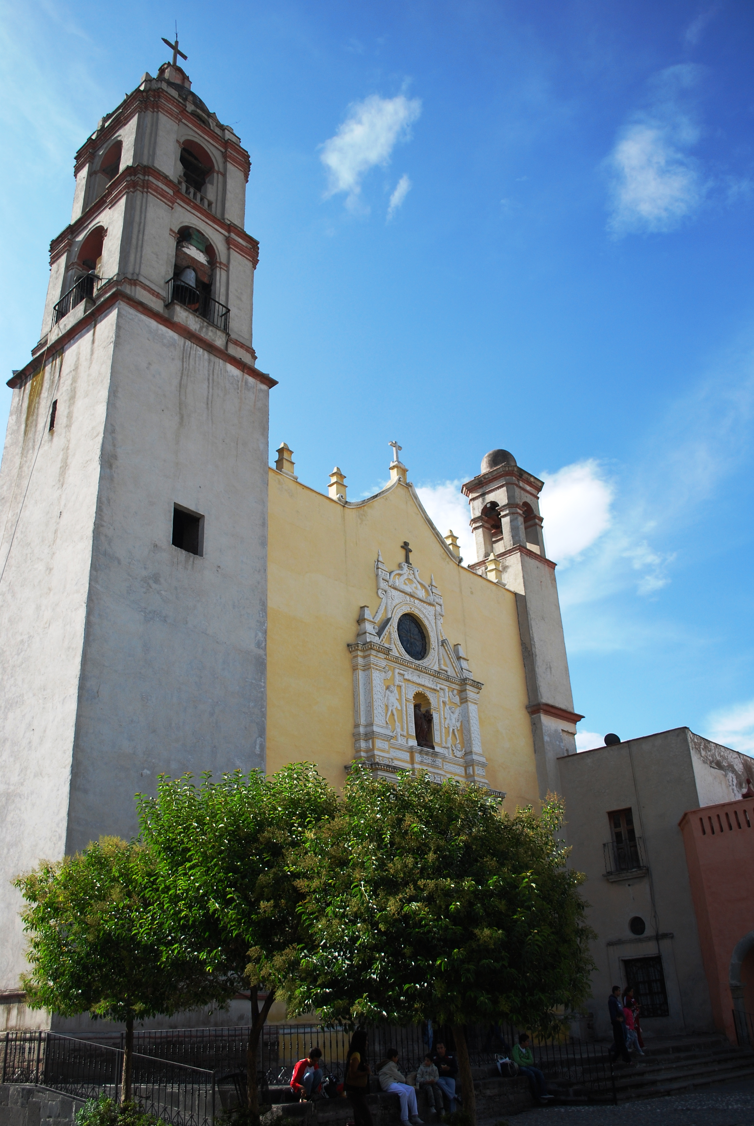 Facade of the Cathedral of Texcoco, Mexico State, Mexico